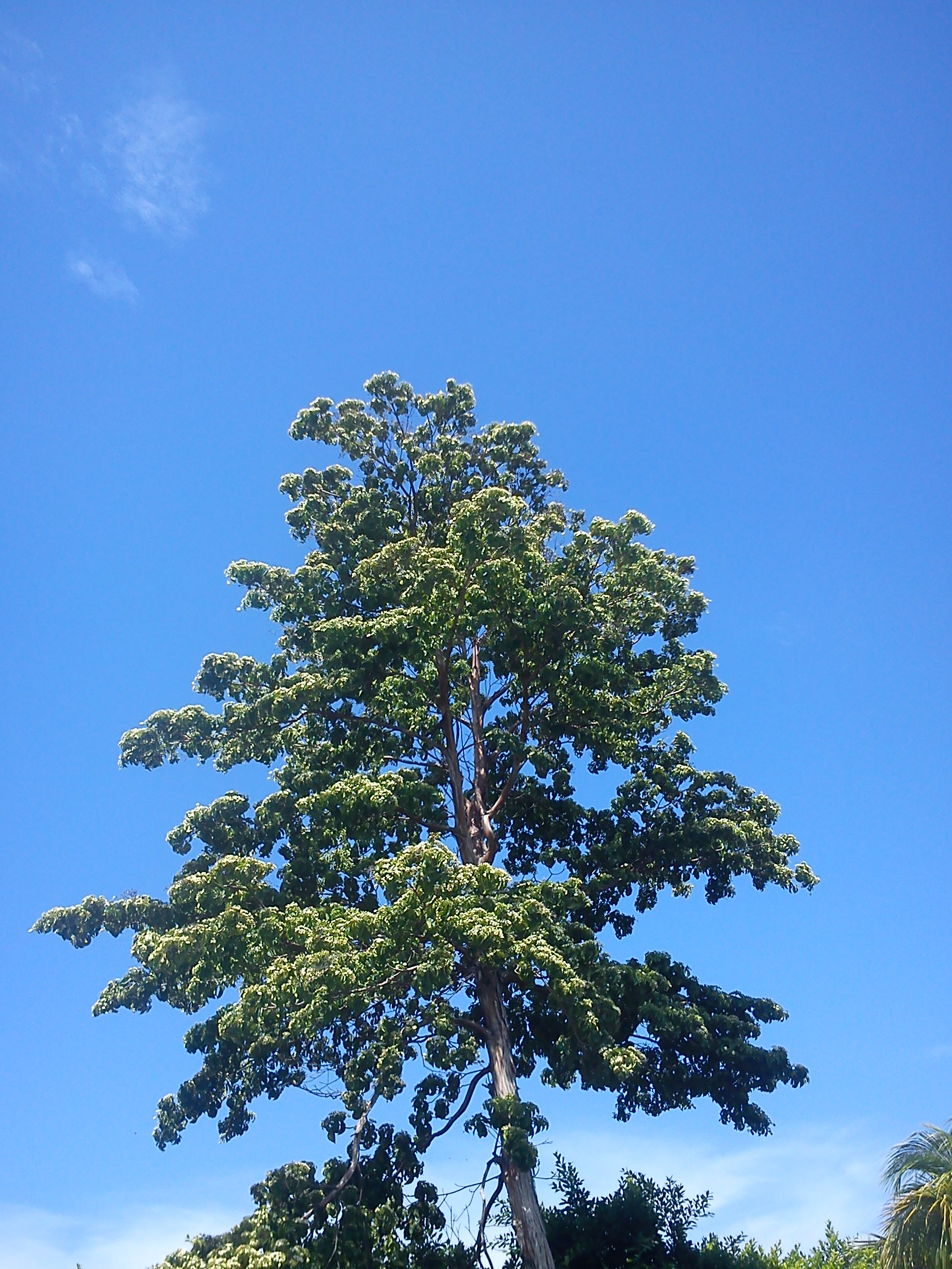 The Calycophyllum candidissimum, known in Nicaragua as Madroño, in a neighborhood in northern Managua, Nicaragua.